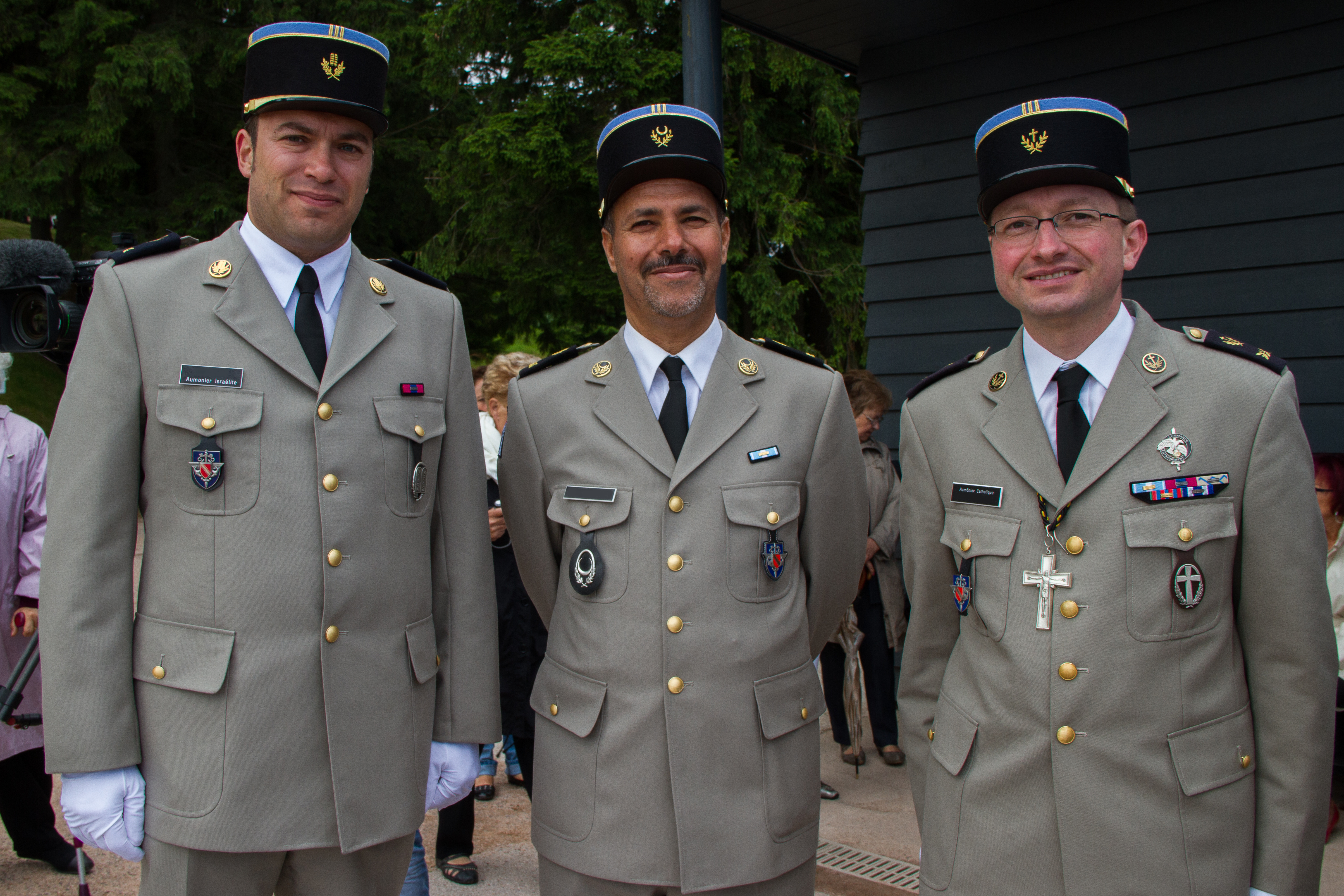 From left to right, Jewish, Muslim, and Roman Catholic chaplains of the French Army at the Place de Strasbourg in June 2013